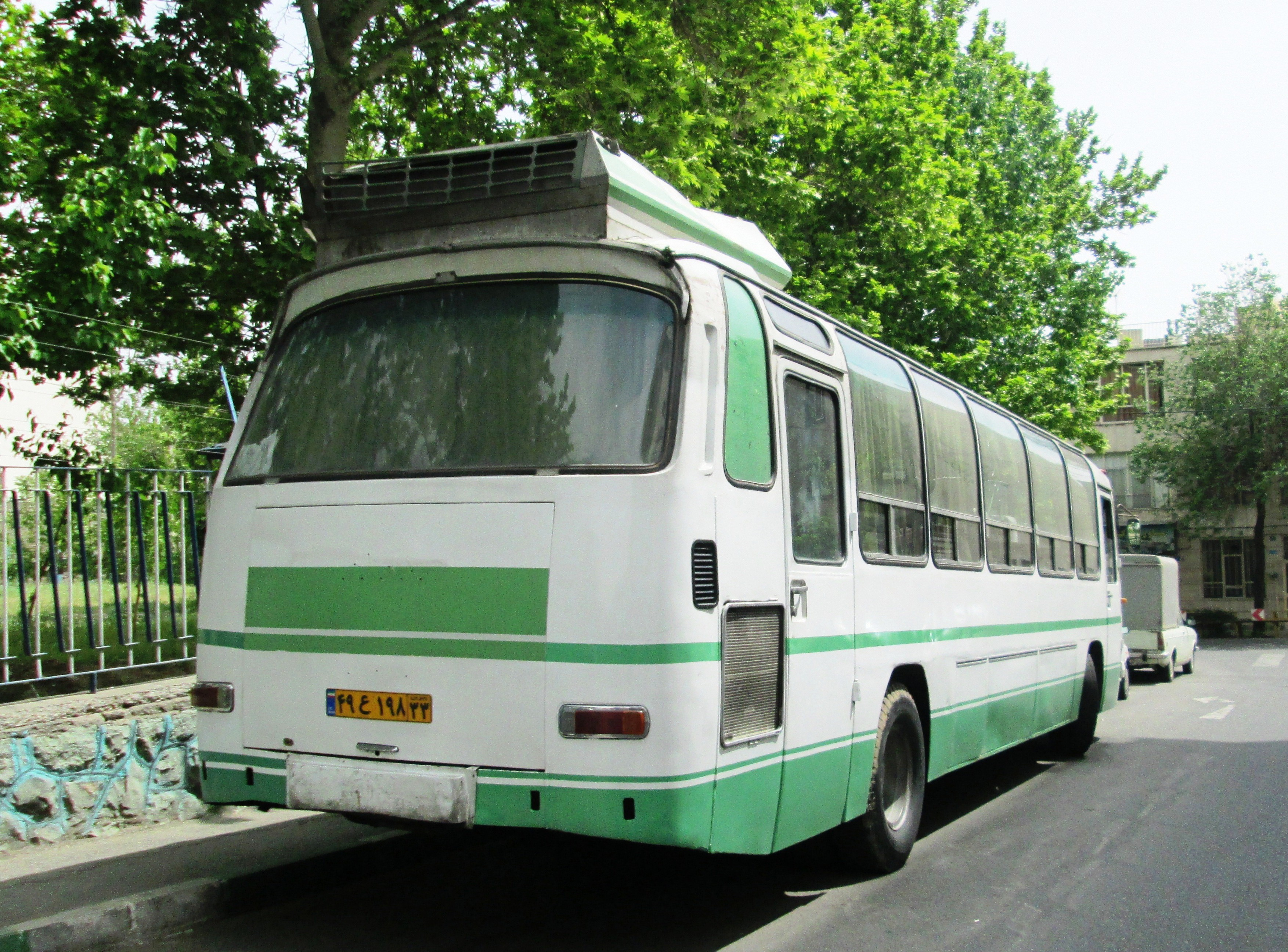 Mercedes-Benz O302 bus , Iran Khodro Diesel built. Photographed in tehran , Persia